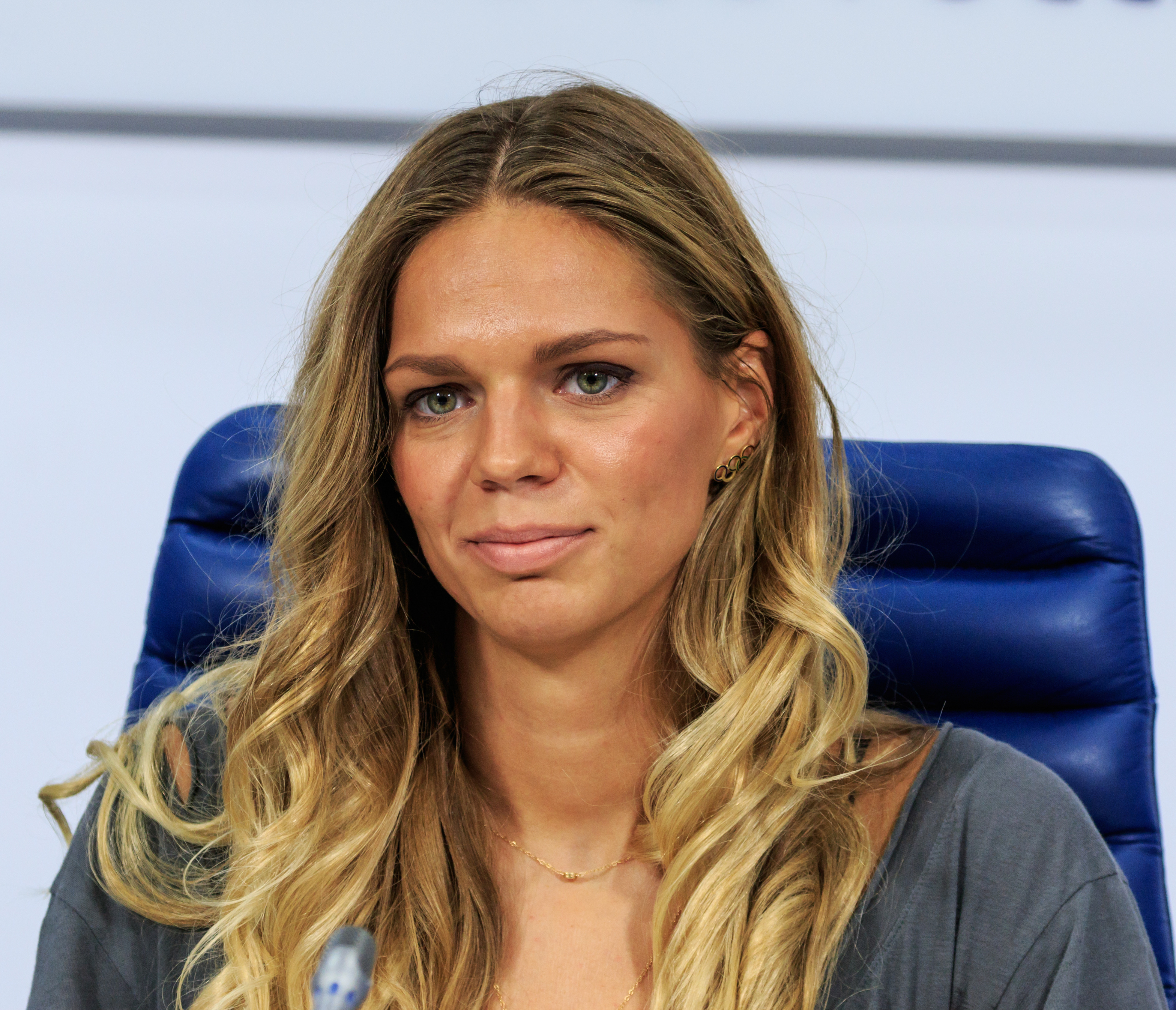 Yuliya Yefimova (b. 1992) is a swimmer from Russia